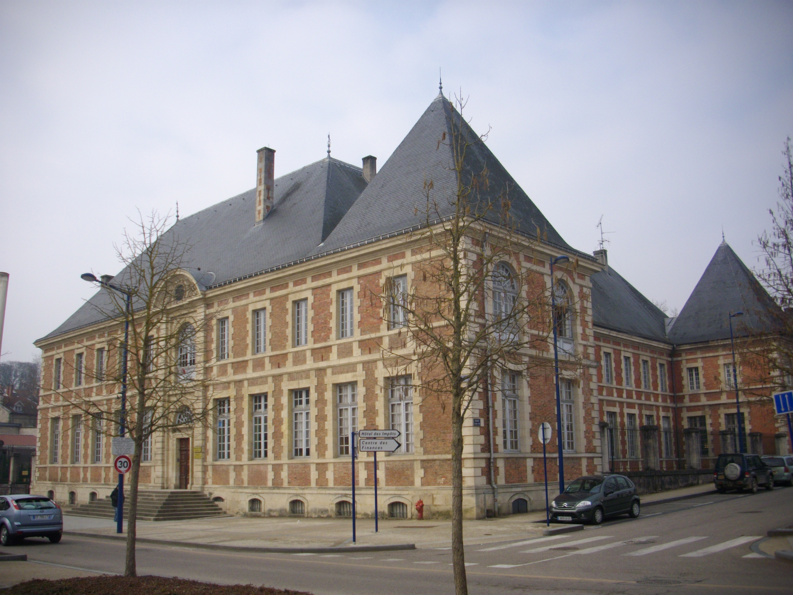 Subprefecture of Verdun (Meuse, France) .